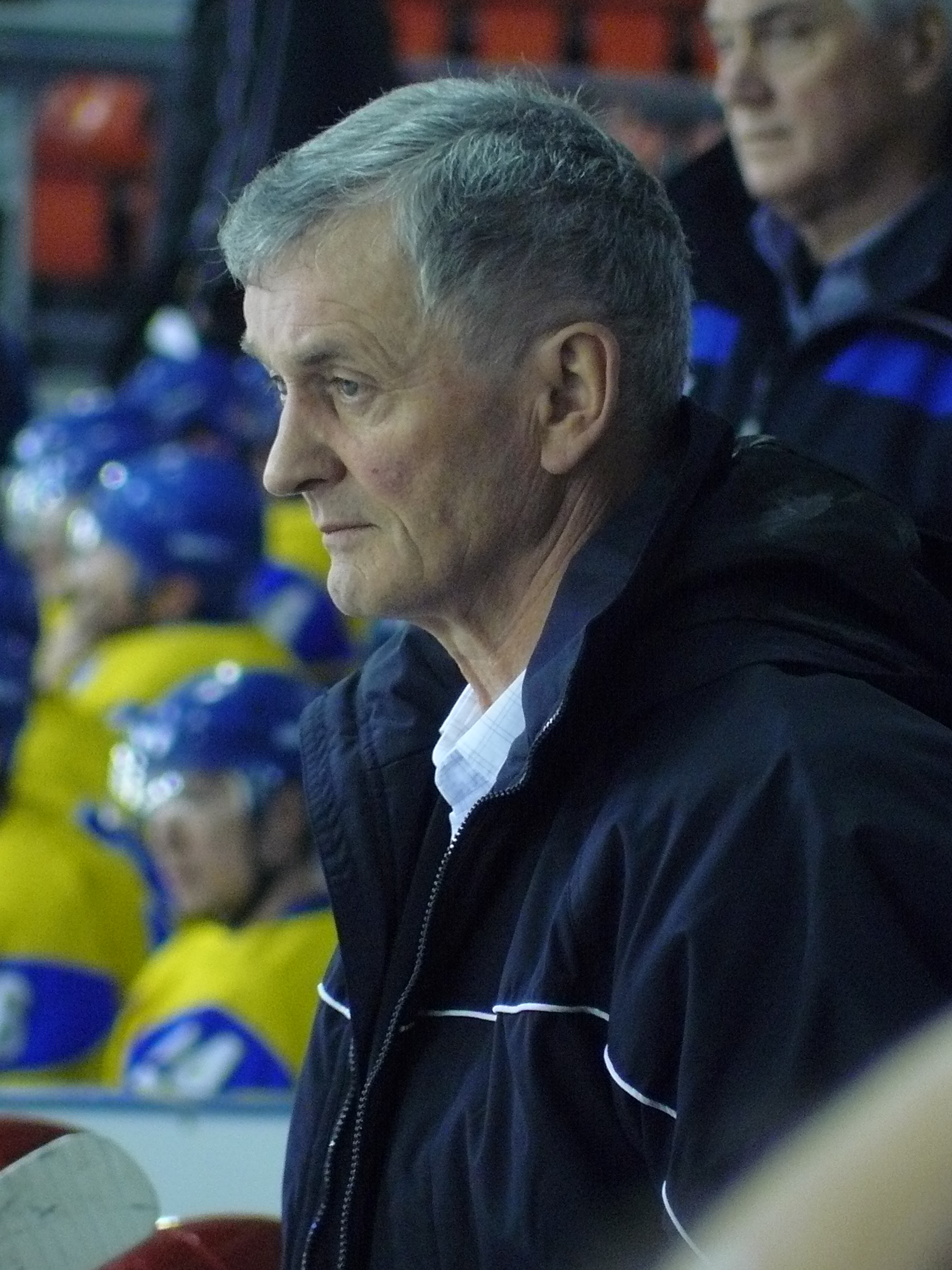 Wiktor Pysz the Poland Head Coach looks on during the friendly game against the Ukraine on April 10, 2010 at the Terminal Arena in Brovary, Ukraine. Ukraine won the game 2:1.